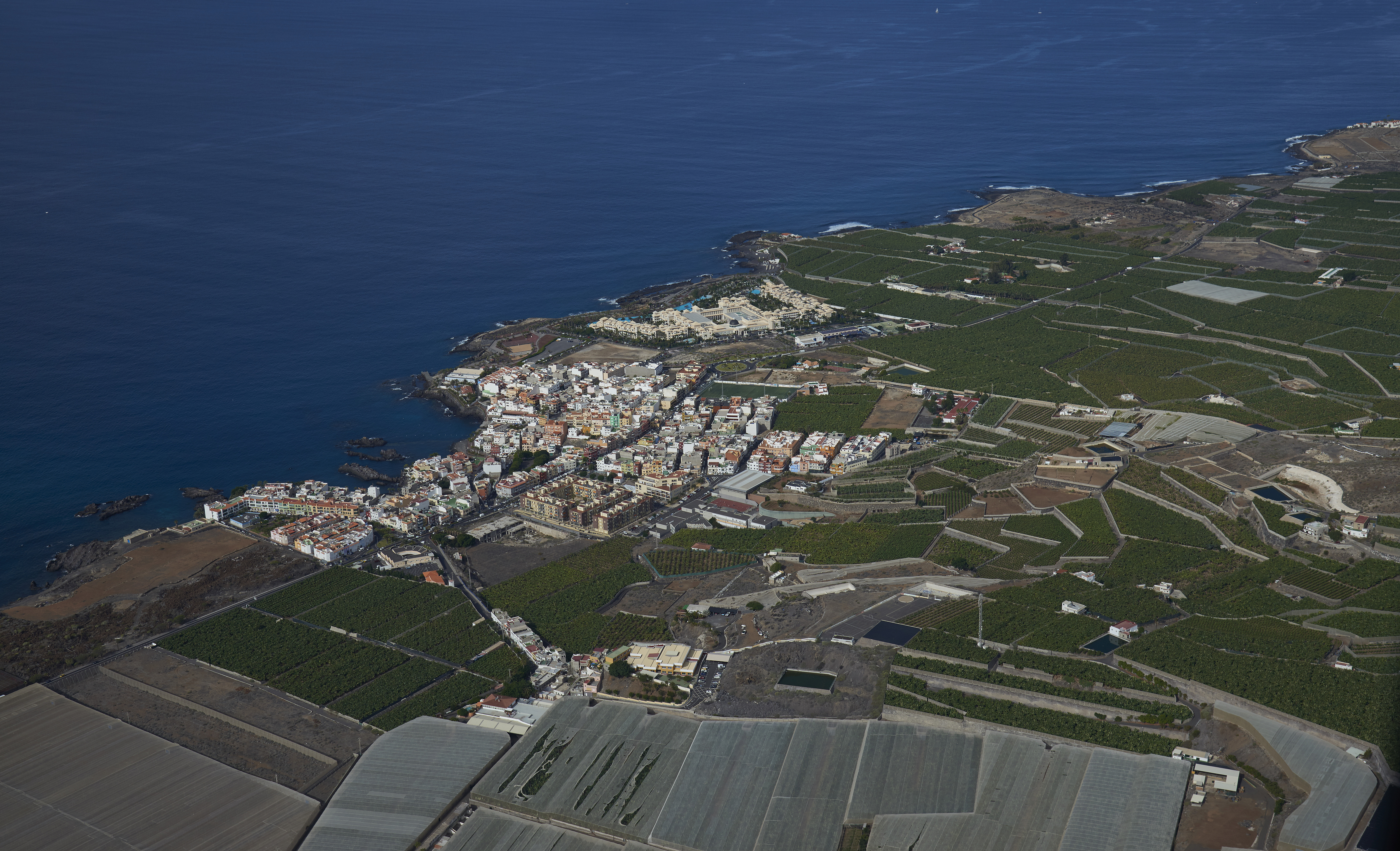 Alcalá and hotel Gran Meliá Palacio de Isora in Tenerife aerial view